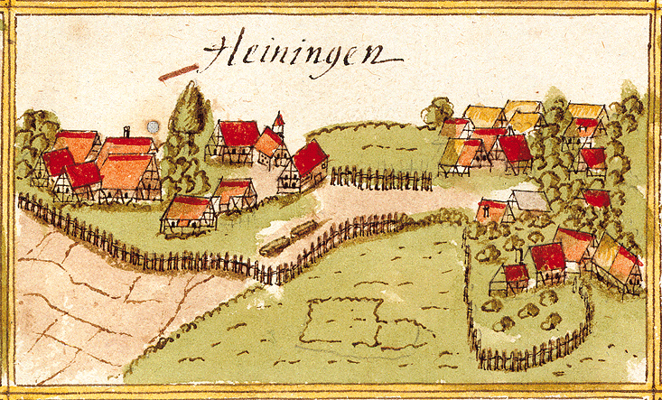 View of Heiningen, Backnang, from the forest register books created by Andreas Kieser